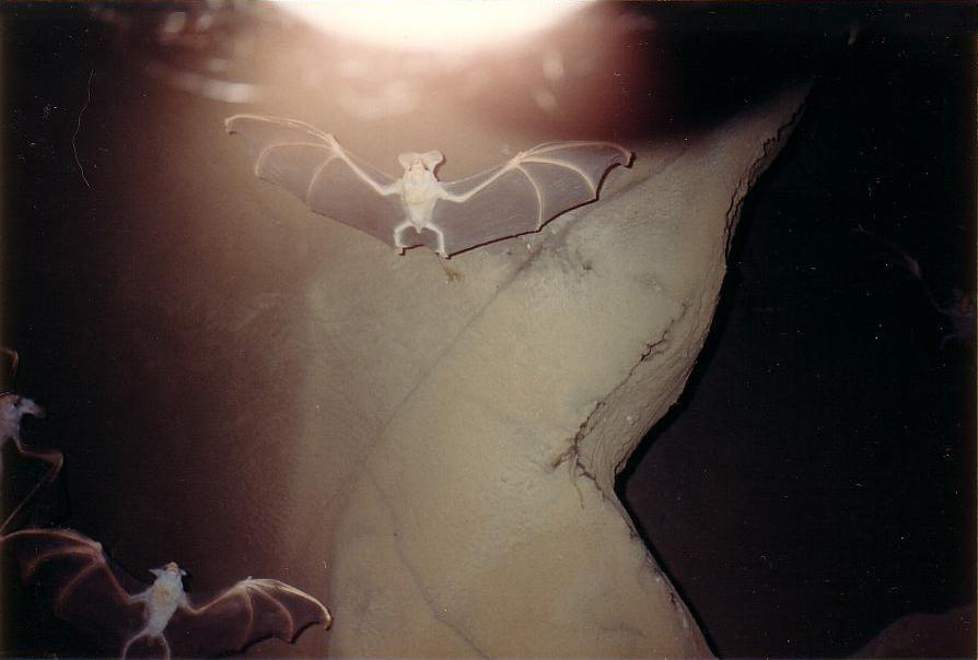 Bat sculptures in an artificial cave at the Gondwana Rainforest Sanctuary, South Bank Parklands